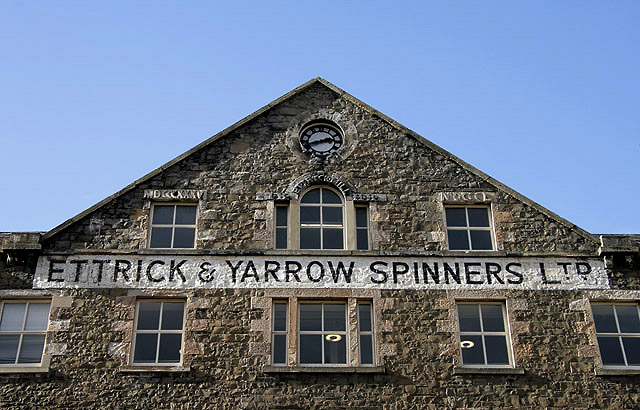 The former Ettrick & Yarrow Spinners Mill at Selkirk This is the gabled pediment with clock on the southeast elevation with the original mill lettering. This converted and restored 19th century 4-storey Ettrick and Yarrow Spinners Mill in Dunsdale Road is now owned by Scottish Enterprise Borders who offer a range of accommodation for all types of businesses. Scottish Enterprise is Scotland's main economic, enterprise, innovation and investment agency. My grandfather worked in this mill as a foreman spinner in the 1950s. For a view of the full height of the front elevation, see 1756666.